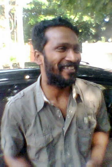 Tamil film director vetrimaran.